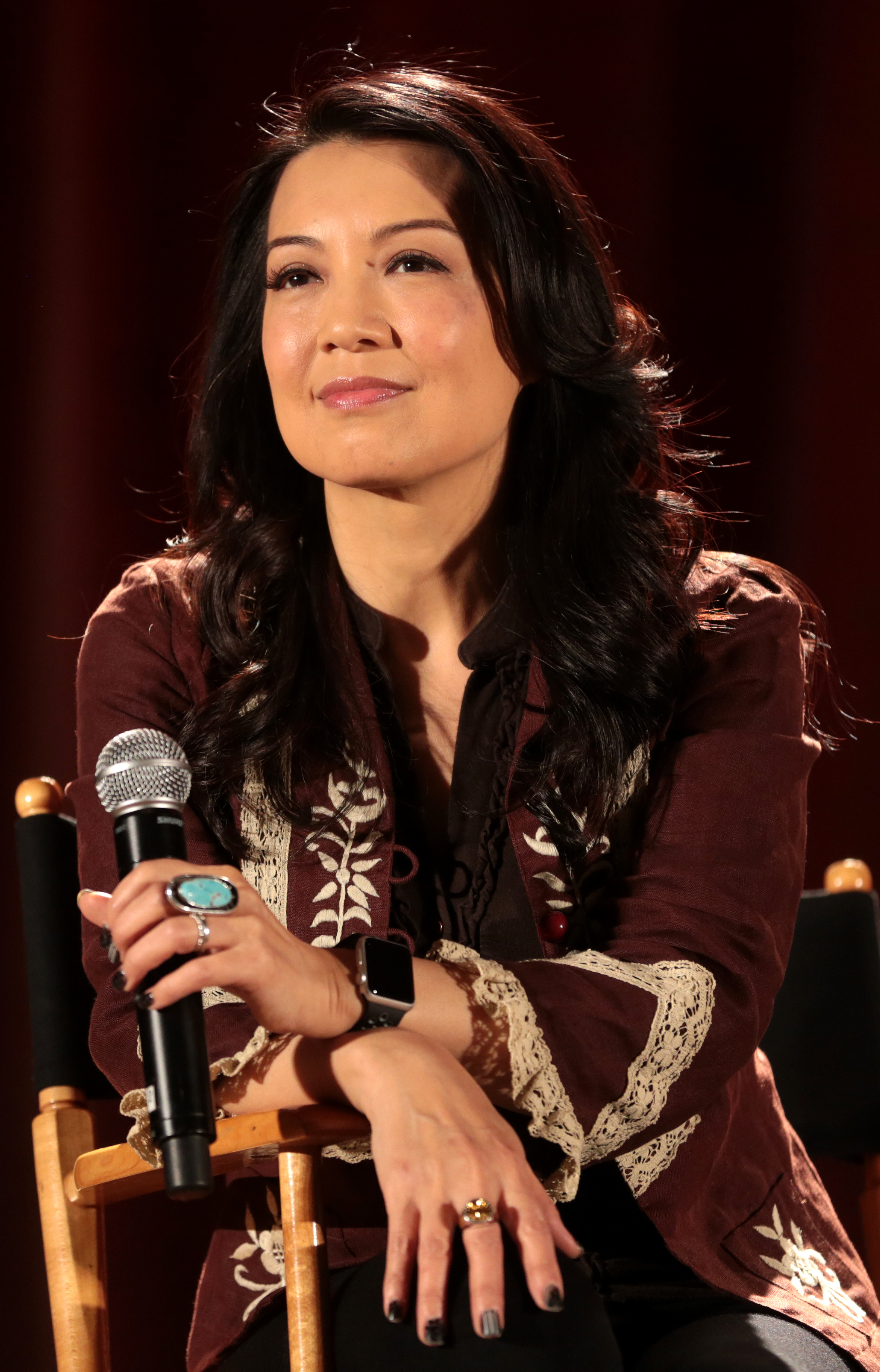 Ming-Na Wen speaking at the 2018 Phoenix Comic Fest in Phoenix, Arizona.